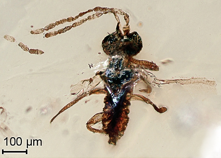 Fossil specimen in amber. Male of uncertain species identity, dorsolateral habitus. Presumed to be Myanmymar aresconoides